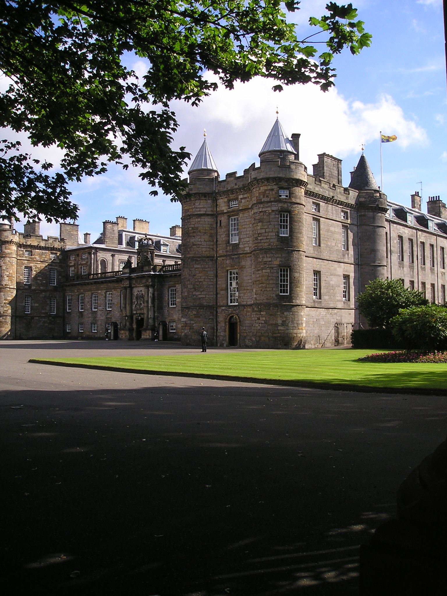 The Palace of Holyroodhouse with the Queen in residence. (This can be seen from flying of the Royal Standard, and the guards posted at the entrance.)